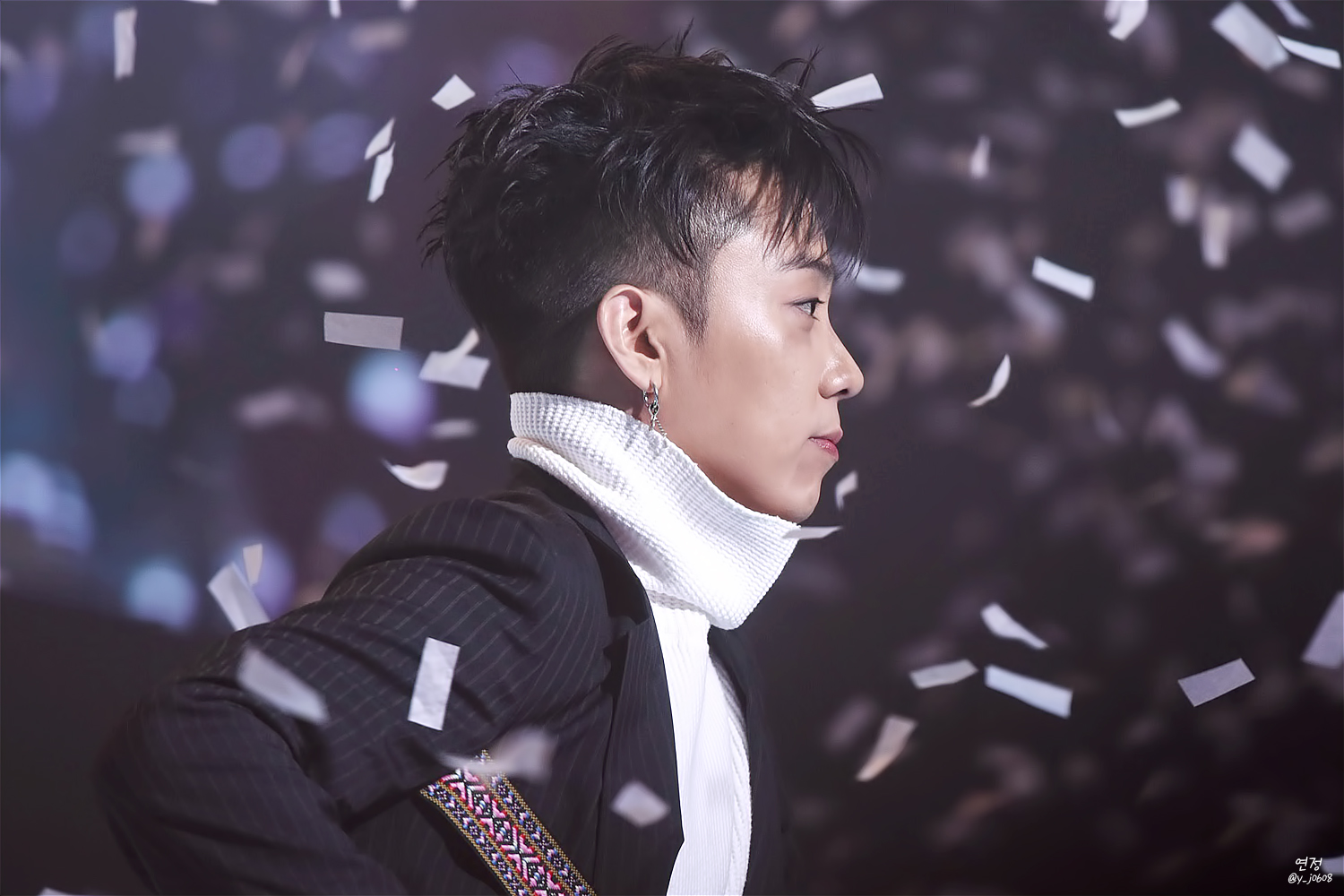 170119 Eun Ji Won at Seoul Music Awards